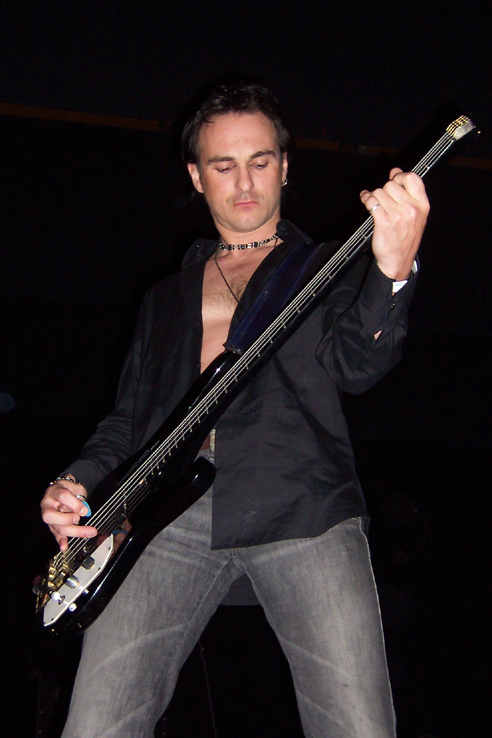 Adam Henderson, bassist for Inkubus Sukkubus, plays onstage.